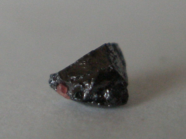 Armalcolite (Grain size 5 mm) Fundort: Wat Lu Mine, Mogok, Sagaing District, Mandalay, Myanmar (Burma) Collection and foto Thomas Witzke.